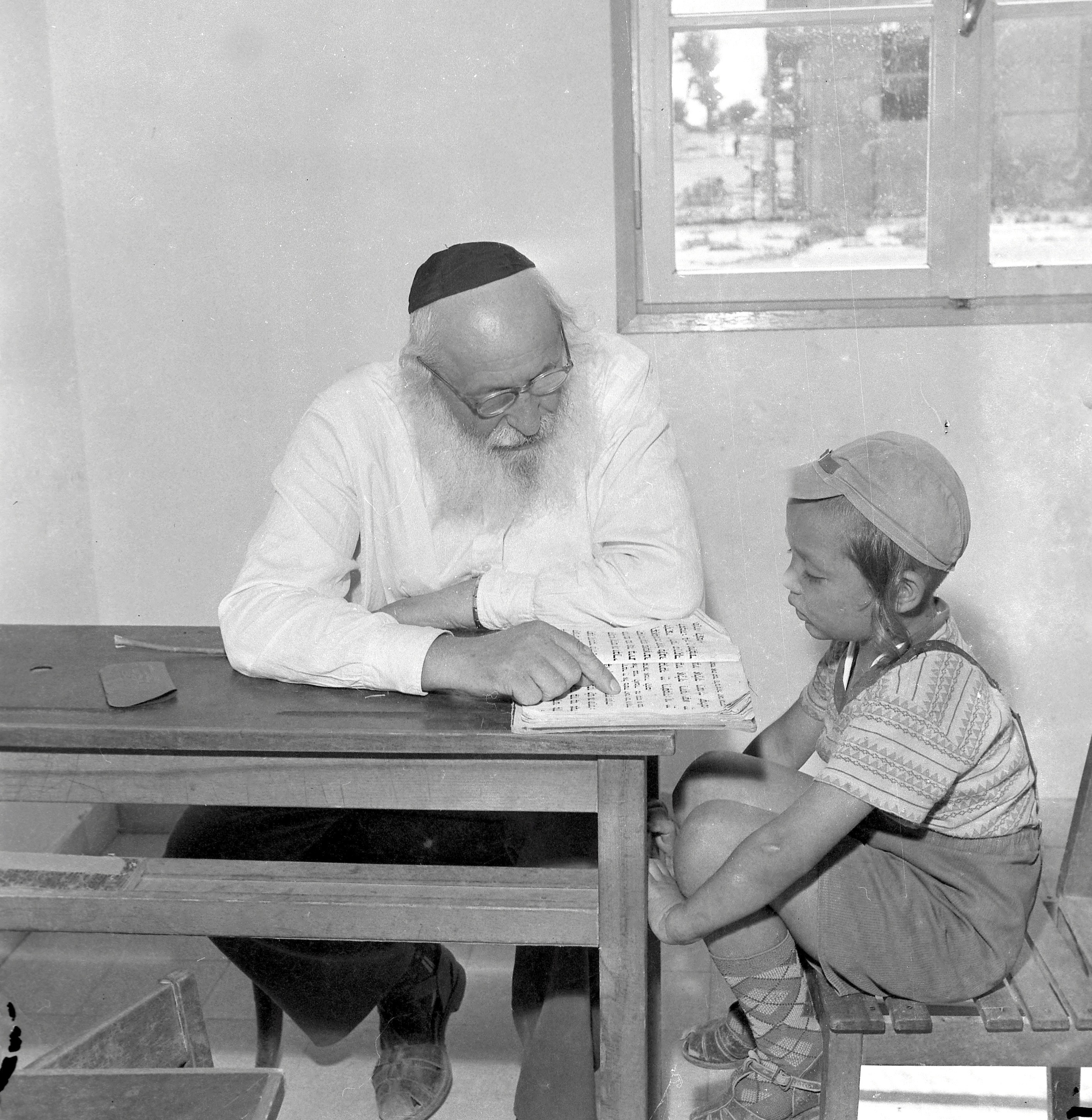 A "Heder" an orthodox Jewish school.